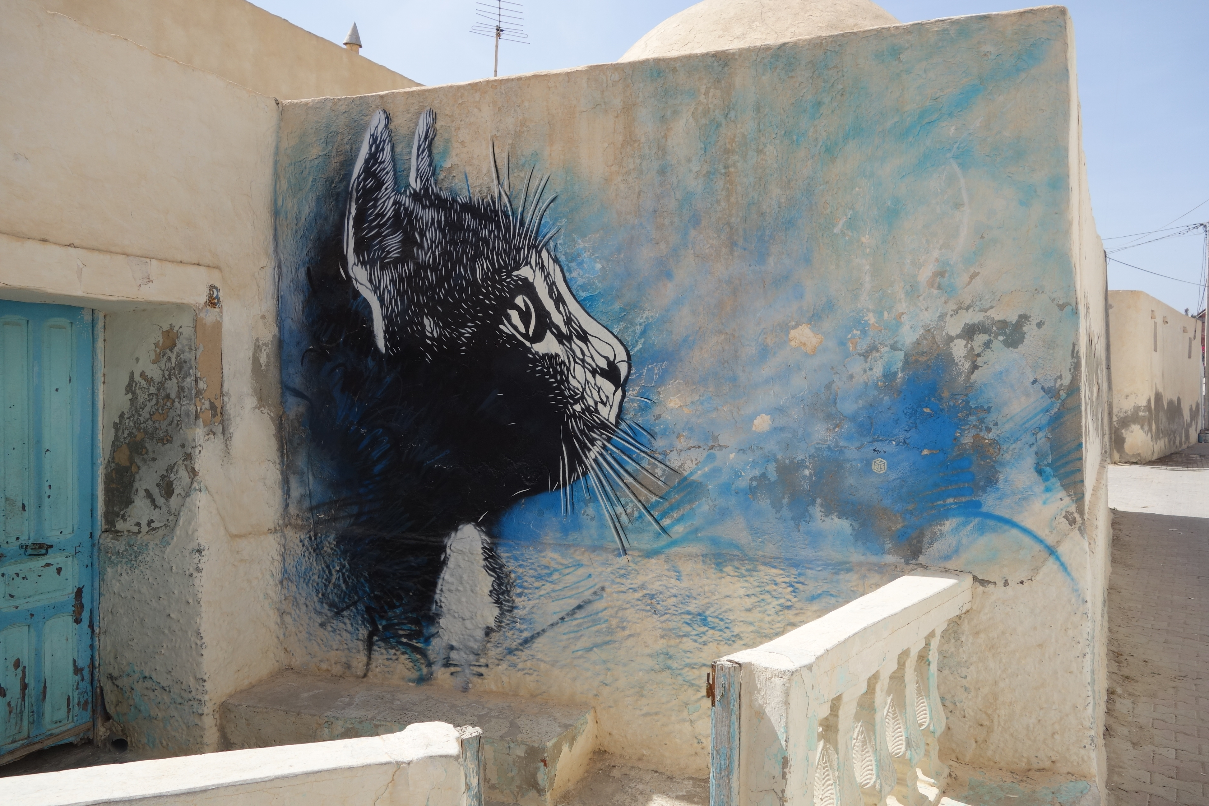 Djerba Er Riadh Street Art